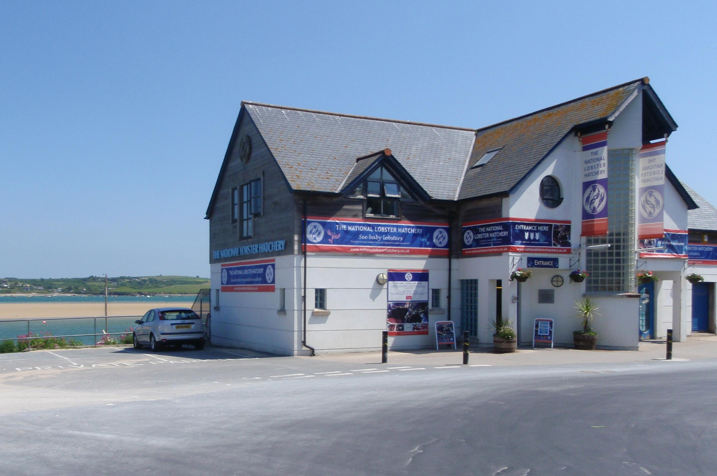 A photo showing the exterior of the National Lobster Hatchery visitor centre in Padstow, Cornwall.